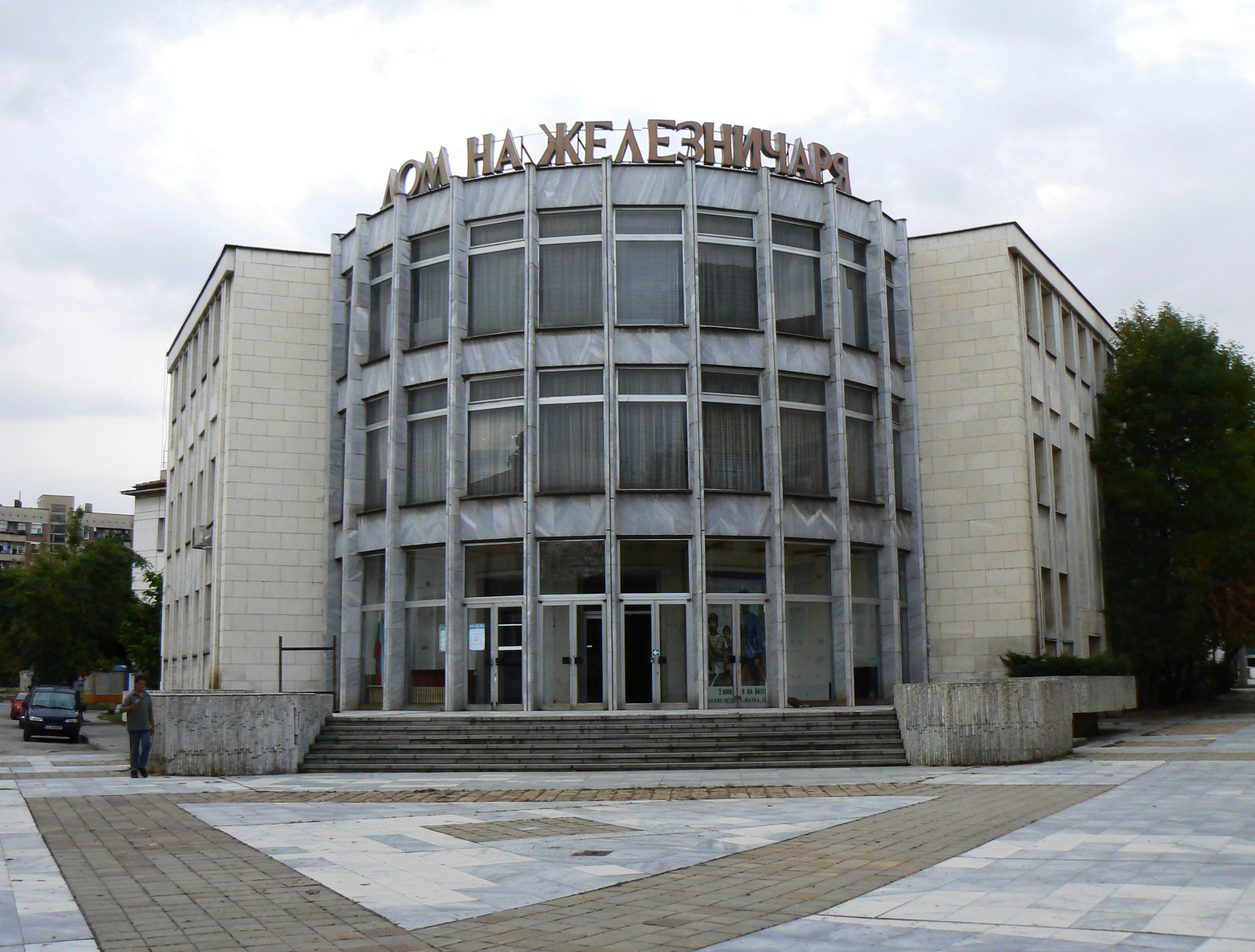 The Railwaymen House in Mezdra, Bulgaria